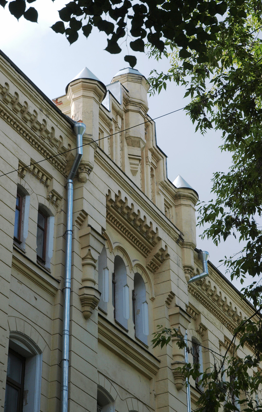 Syromyatnichesky Lane (proezd, the one without number), Moscow - the Hludov almshouse, 1888.